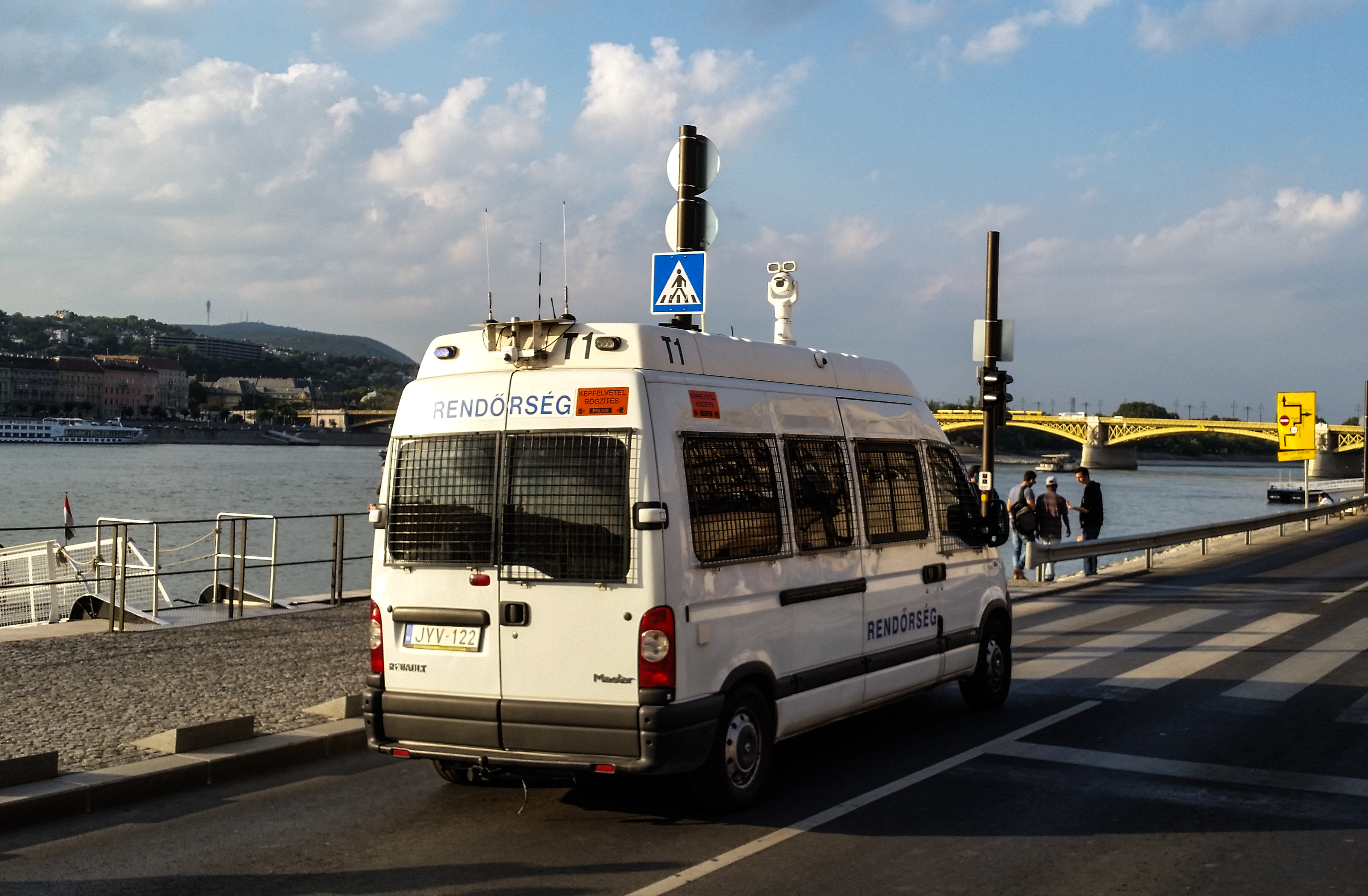 Police car on a demonstration